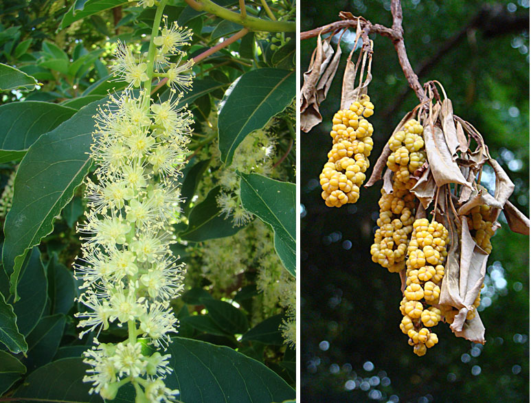 Flowers and fruit of the Umbu tree in Buenos Aires. In context at